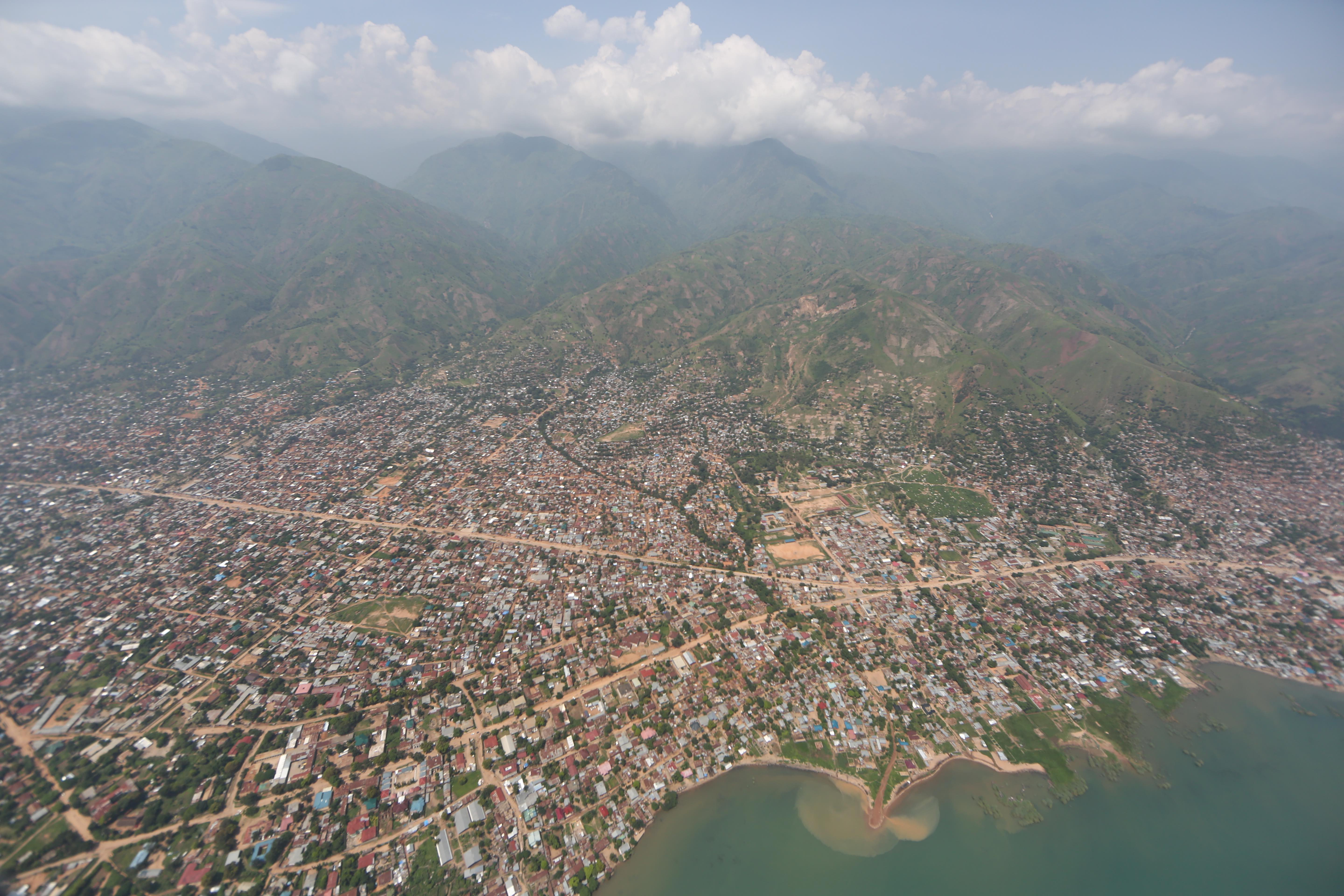 Uvira, Sud Kivu, RD Congo : Vue aérienne de la ville d'Uvira depuis un hélicoptère Puma de la MONUSCO. Photo MONUSCO/Abel Kavanagh = Uvira, South Kivu, DR Congo: Aerial view of the town of Uvira from a MONUSCO Puma helicopter. Photo MONUSCO/Abel Kavanagh